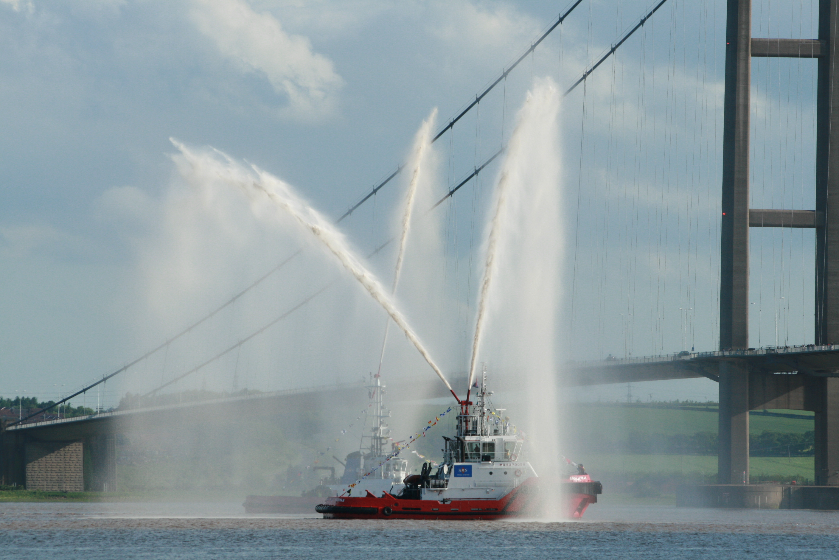 Tugboat "Englishman" from Associated British Ports at the celebrations of the Diamond Jubilee of Elizabeth II on 4 June 2012 at the Humber Bridge, Hessle, East Riding of Yorkshire.